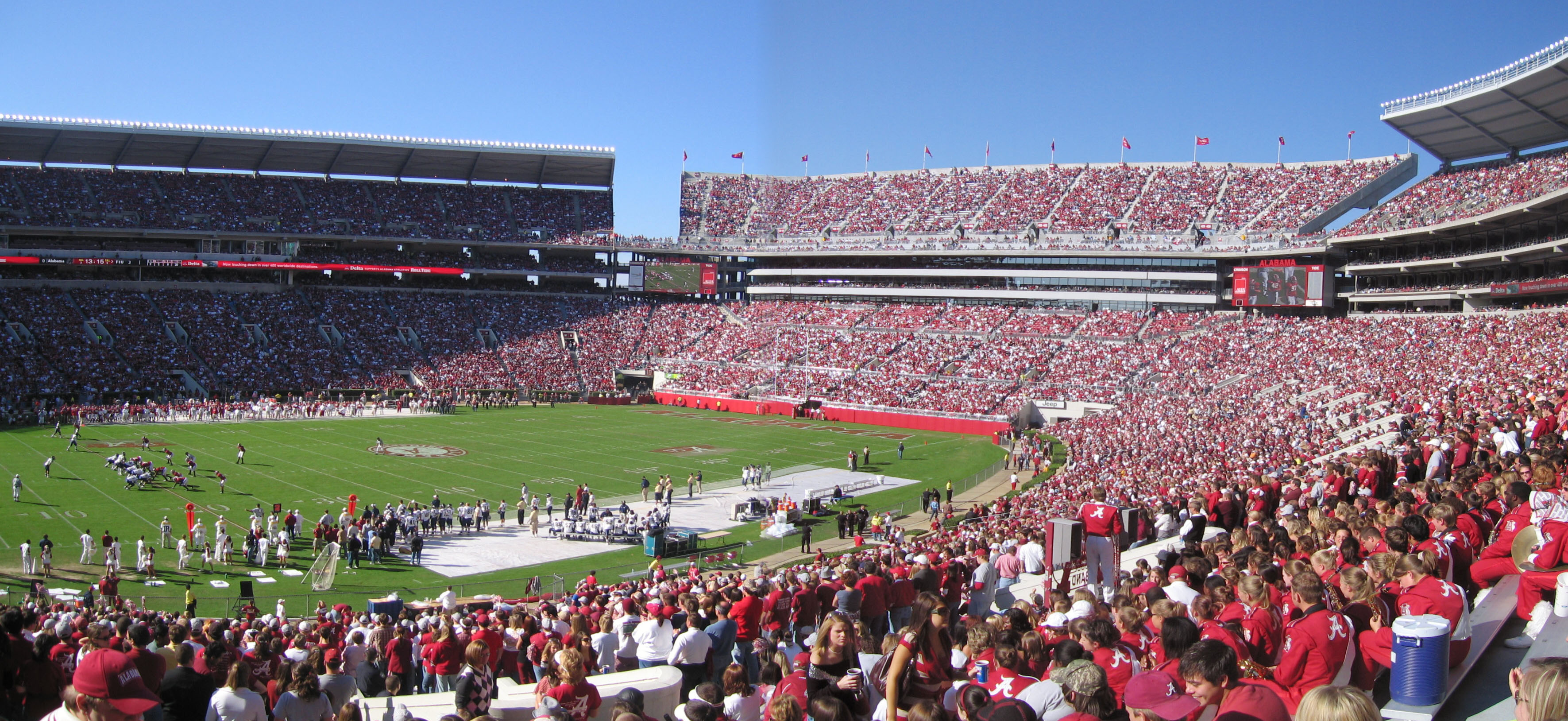 Bryant-Denny Stadium in Tuscaloosa, AL. Home of The University of Alabama Crimson Tide.